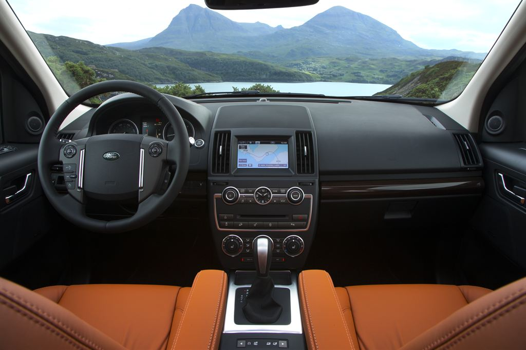 Land Rover has given the LR2 a premium overhaul, delivering even better comfort, convenience and driving enjoyment. New colours, new exterior design features, upgraded equipment levels and the new lightweight and efficient petrol engine all contribute to make this SUV even better.